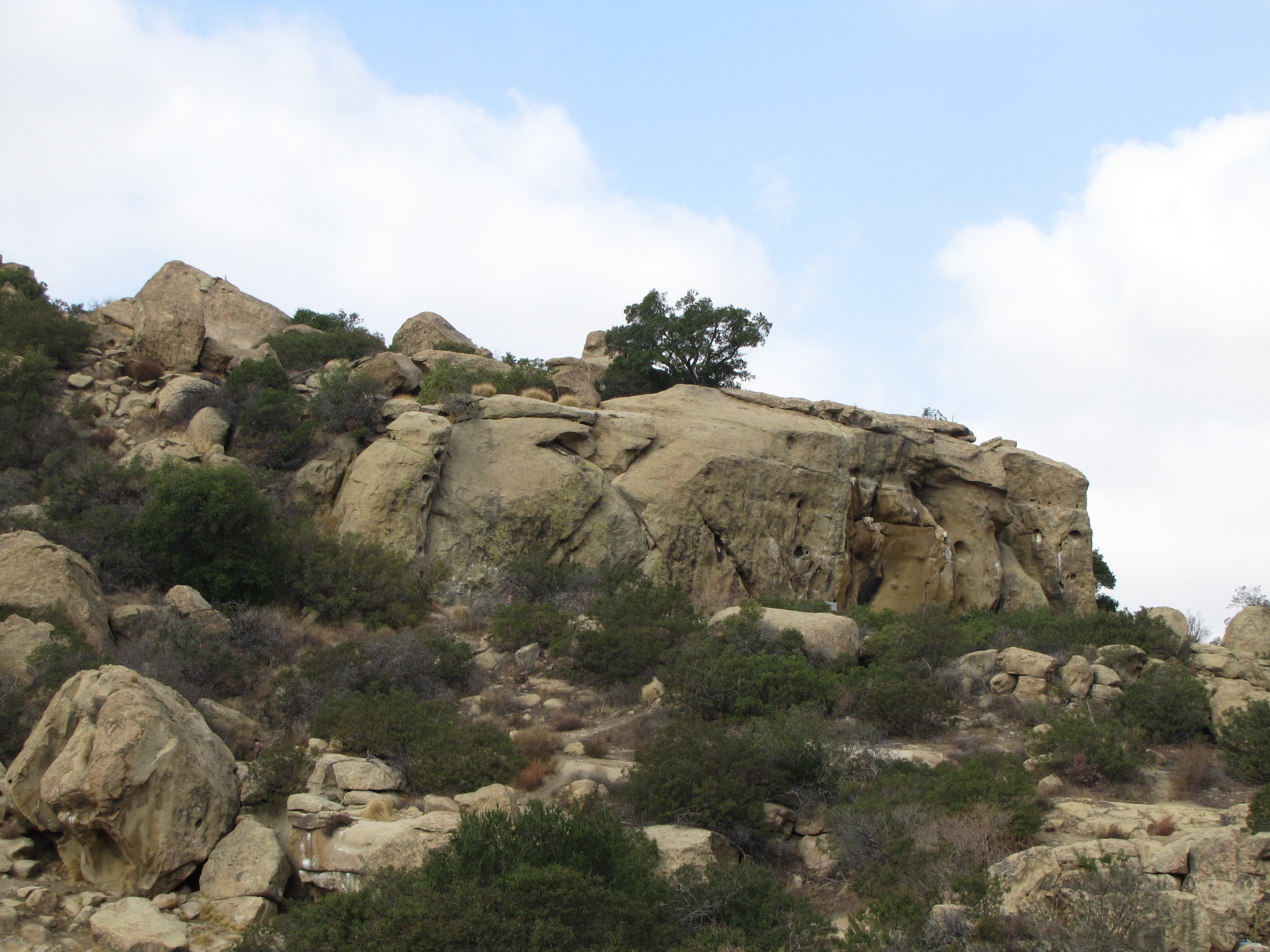 An ancient petroglyph of a squirrel or rabbit on the eastern side of Stoney Point.